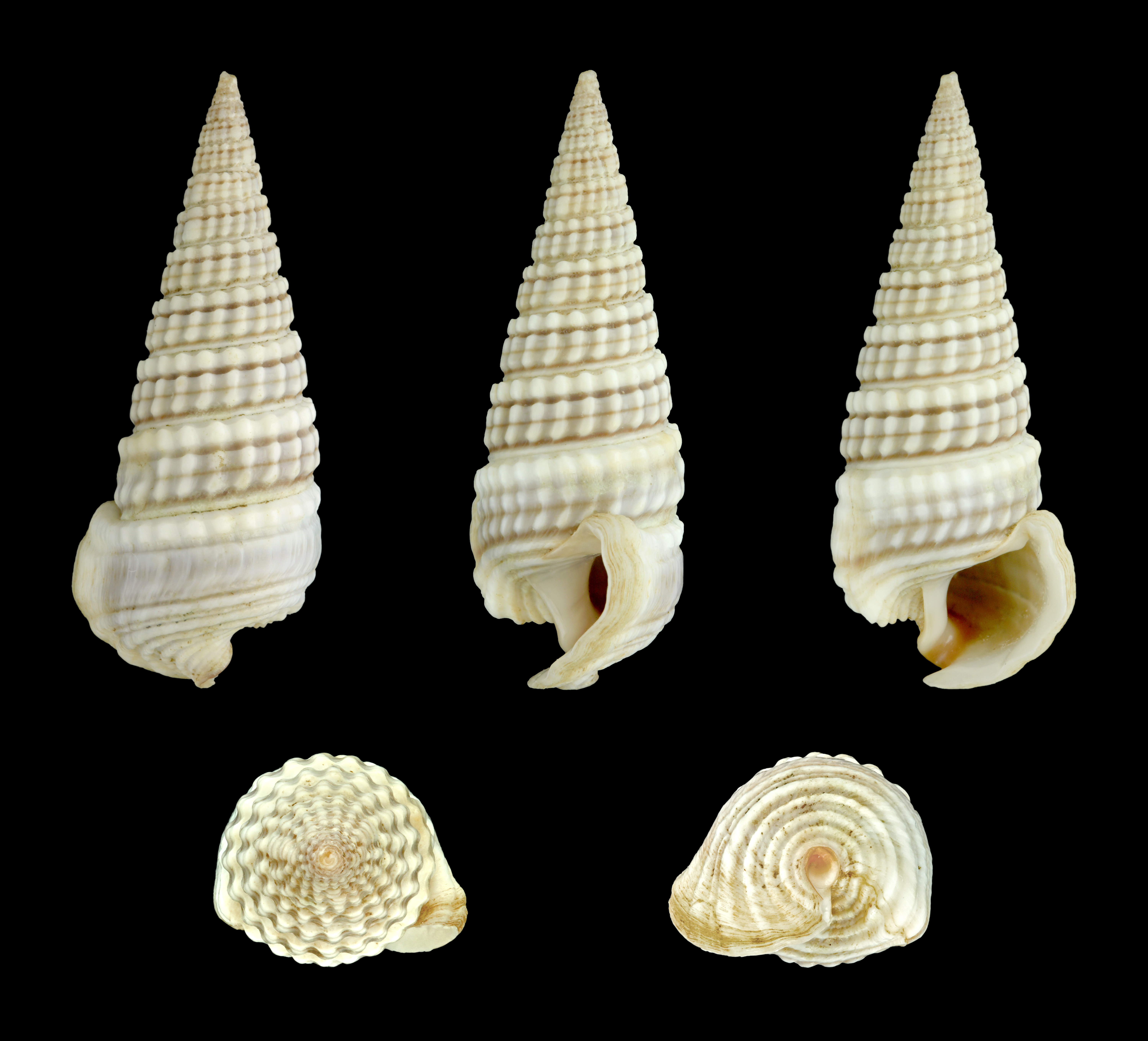 Girdled Horn Snail; length 2.6 cm; Originating from from the Red Sea, Gulf of Aqaba, Tabuk Region, Saudi Arabia; Shell of own collection, therefore not geocoded. Dorsal, lateral (right side), ventral, back, and front view.